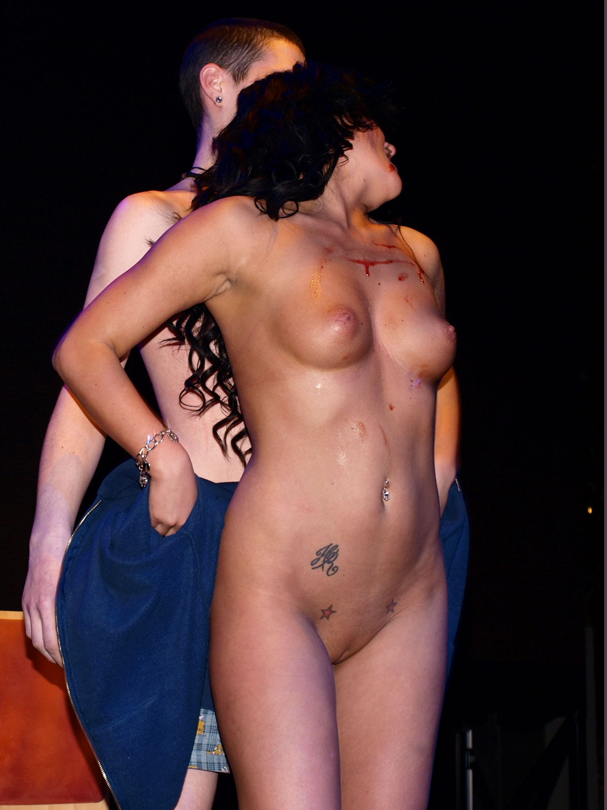 ErosPyramide20090221_119